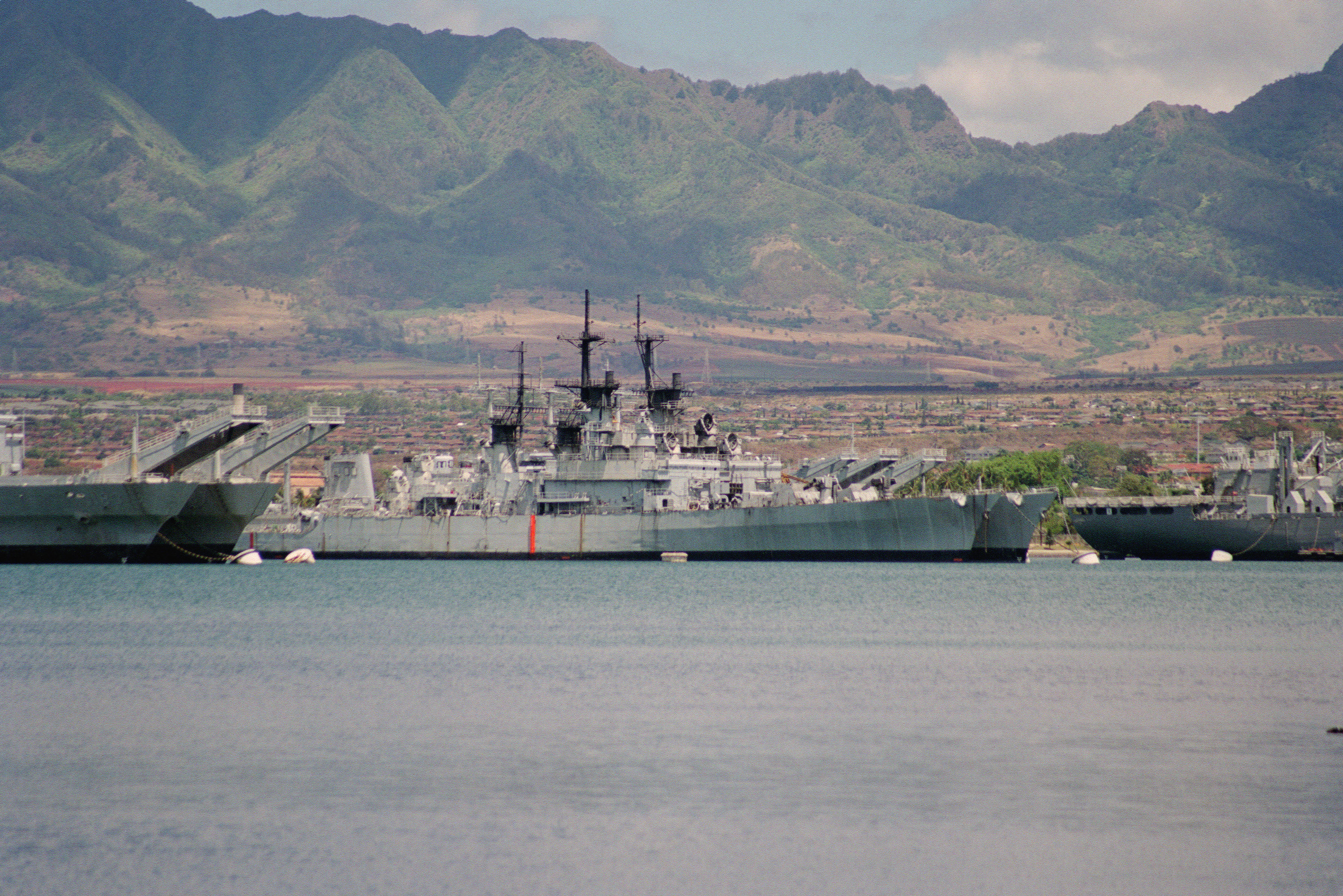 Two U.S. Navy decommissioned Leahy-class guided missile cruisers are moored in the Pearl Harbor Naval Ships Intermediate Maintenance Facility, Hawaii (USA), on 4 June 2000. The inboard ship is USS Worden (CG-18). She was sunk on 17 June 2000 in a live fire missile shoot by units involved in exercise RIMPAC 2000. The outboard ship is USS Reeves (CG-24). She was sunk on 31 May 2001 as a target ship off the coast of Queensland, Australia. Five Newport News-class tank landing ships are also vivible.